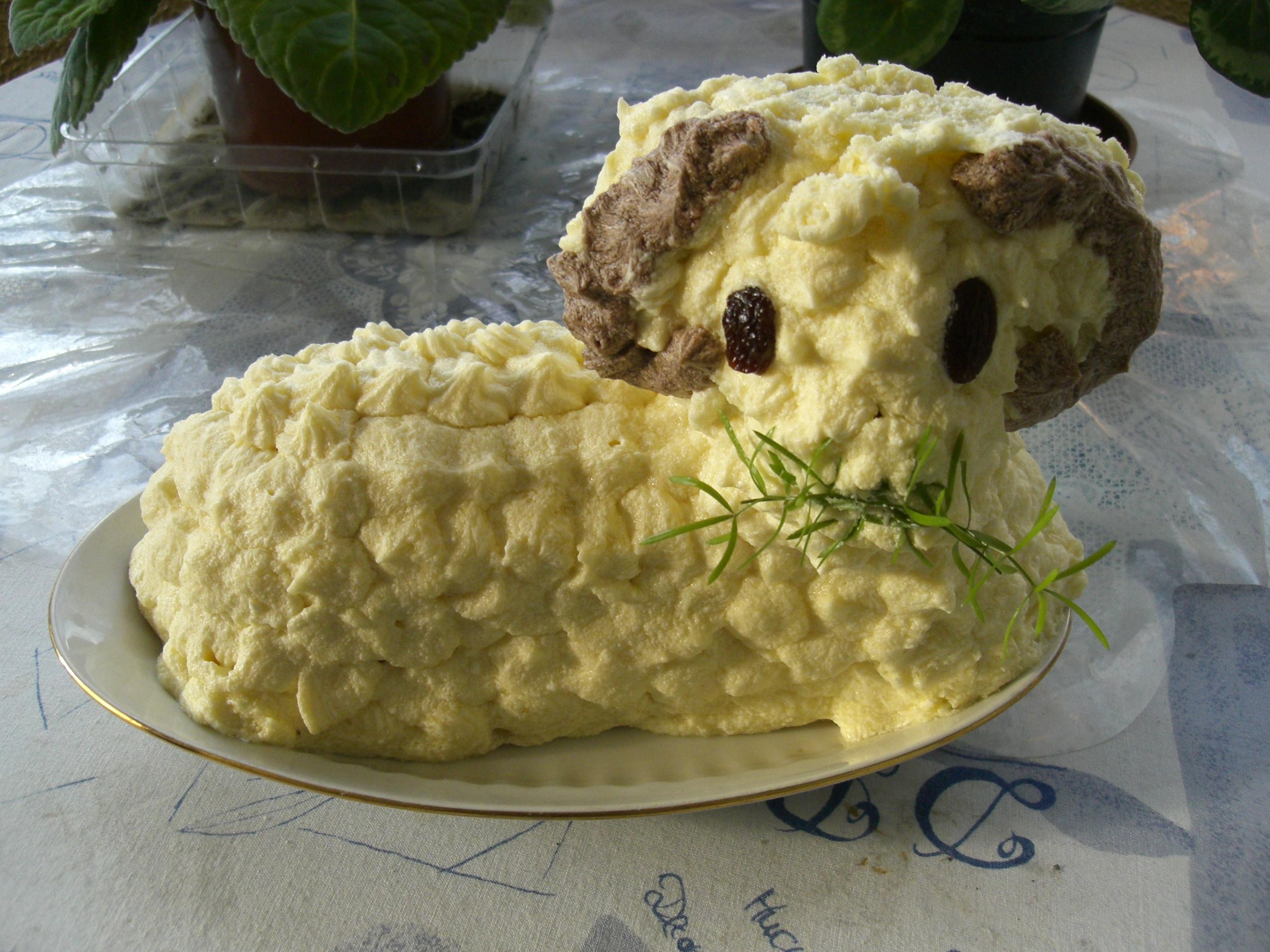 Easter lamb - special kind of czech sweet pastry which is decoreted by sweet cream.